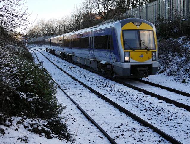 Arrival at Botanic Station The 1327 service from Bangor to Portadown arrives into Botanic at 1401. A heavy snowfall a few hours earlier has not affected the journey.